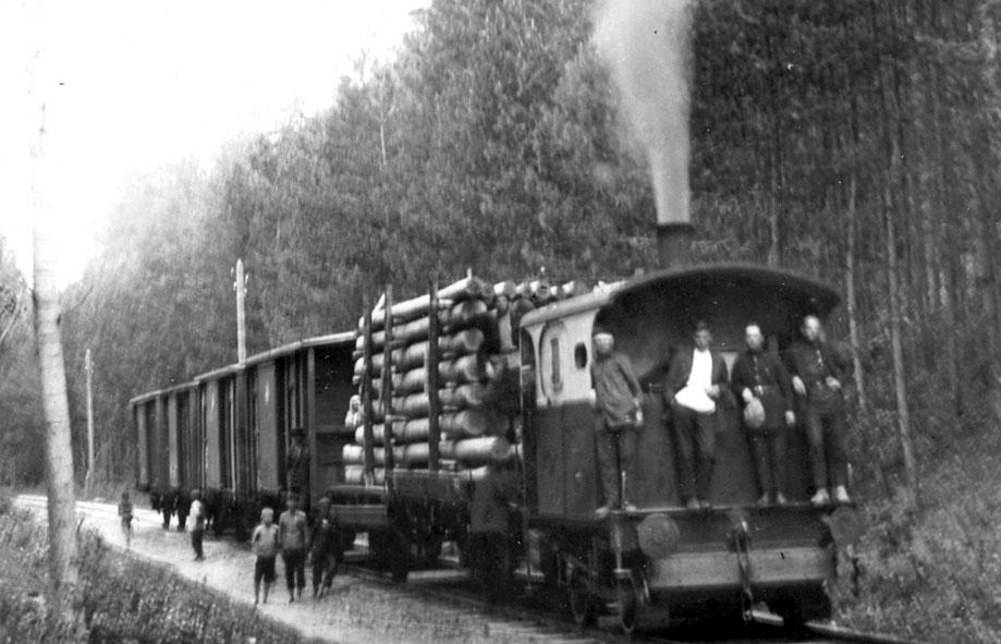 tendersteamlocomotive Rak, station Paratsk, Tatarstan, 1880